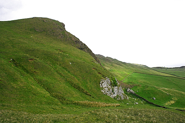 Scawt Hill In sunnier weather the chalk outcrop at the foot of Scawt Hill would be much more dramatic. The exposed contact between the chalk and the overlying basalt features unusual minerals, formed as the chalk was baked by the hot lava.